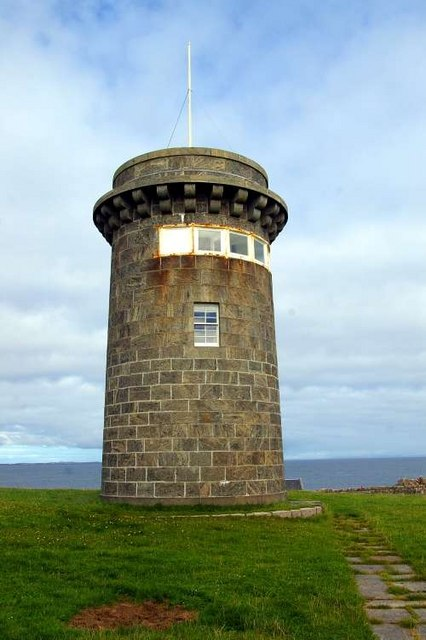 Skerryvore signal tower / Tùr chomharraidh na Sgeire Mòire Formerly used for communicating with the Skerryvore lighthouse, some 17 km SW at NL 840263.